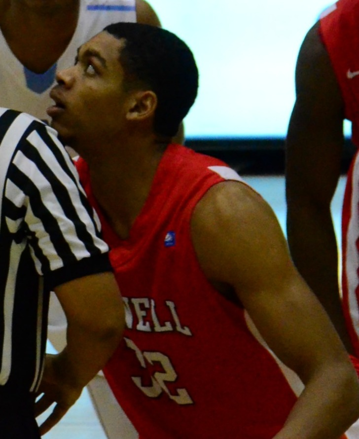 Opening Tipoff Cornell v. Columbia in 2015